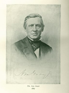 American botanist Asa Gray in 1867. Published in More Letters of Charles Darwin (1903).